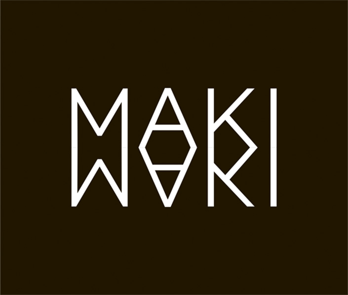 Logo of MAKI